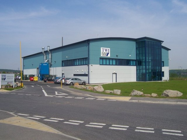 TWI Technology Centre The TWI Technology Centre at Waverley Advanced Manufacturing Park.